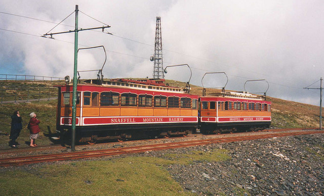 Two cars at the summit station Behind the cars is the radio mast at the top of Snaefell.